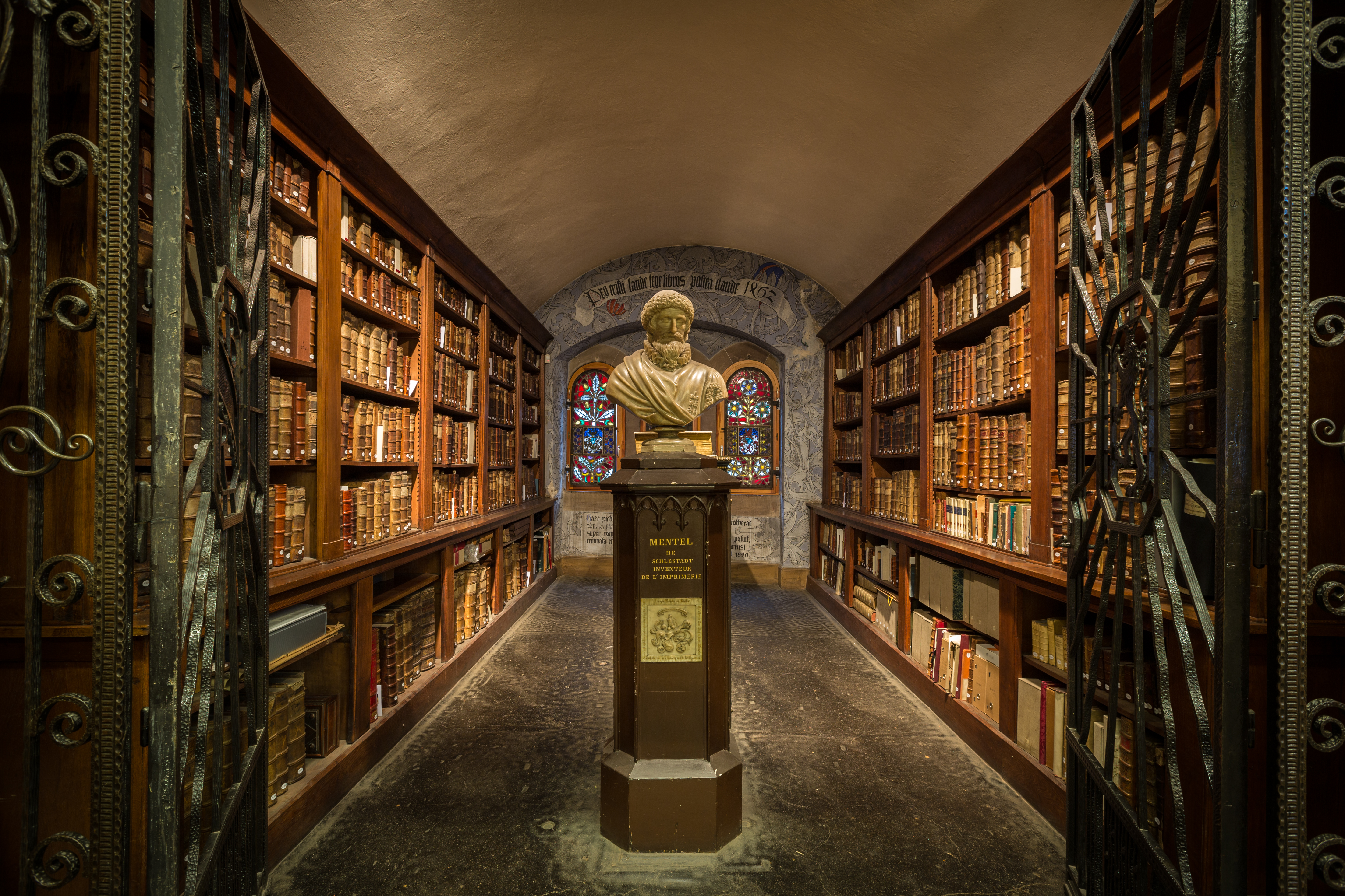 Sélestat library, with statue of Jean Mentel, printer and publisher (1410-1478), signed Sichler SC, 1842. The mention in golden letters says "Mentel of Schlestadt, inventor of printing press." The Latin inscription on the marble plaque below says "In the year 1466, Emperor Frederic III gaves the coat of arms to the Schott family, the first inventor of typography."